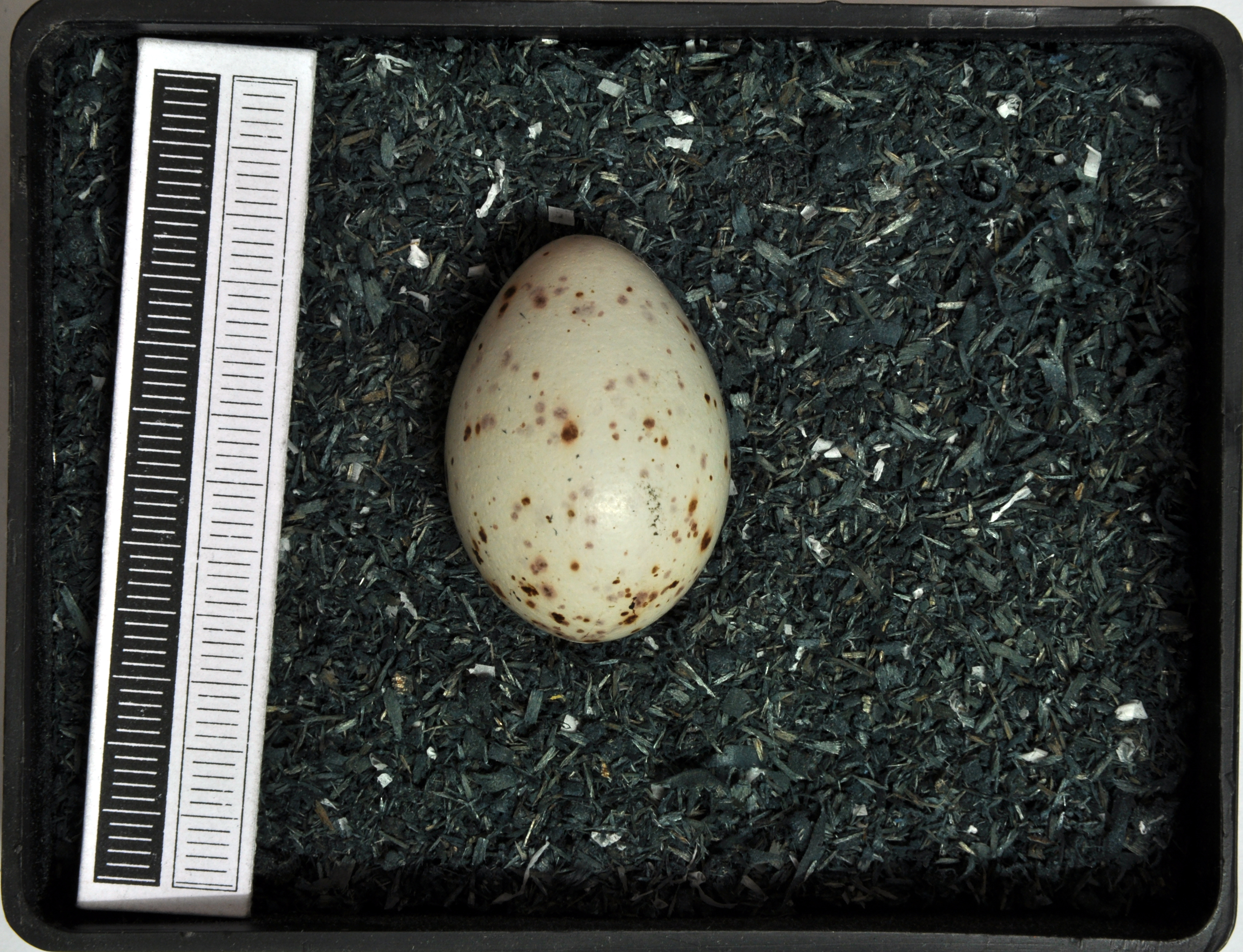 Mistle thrush Turdus viscivorus, egg, Coll. Museum Wiesbaden, Origin: Svanskog, Sweden, 06.05.1963, leg. W. Abelmann